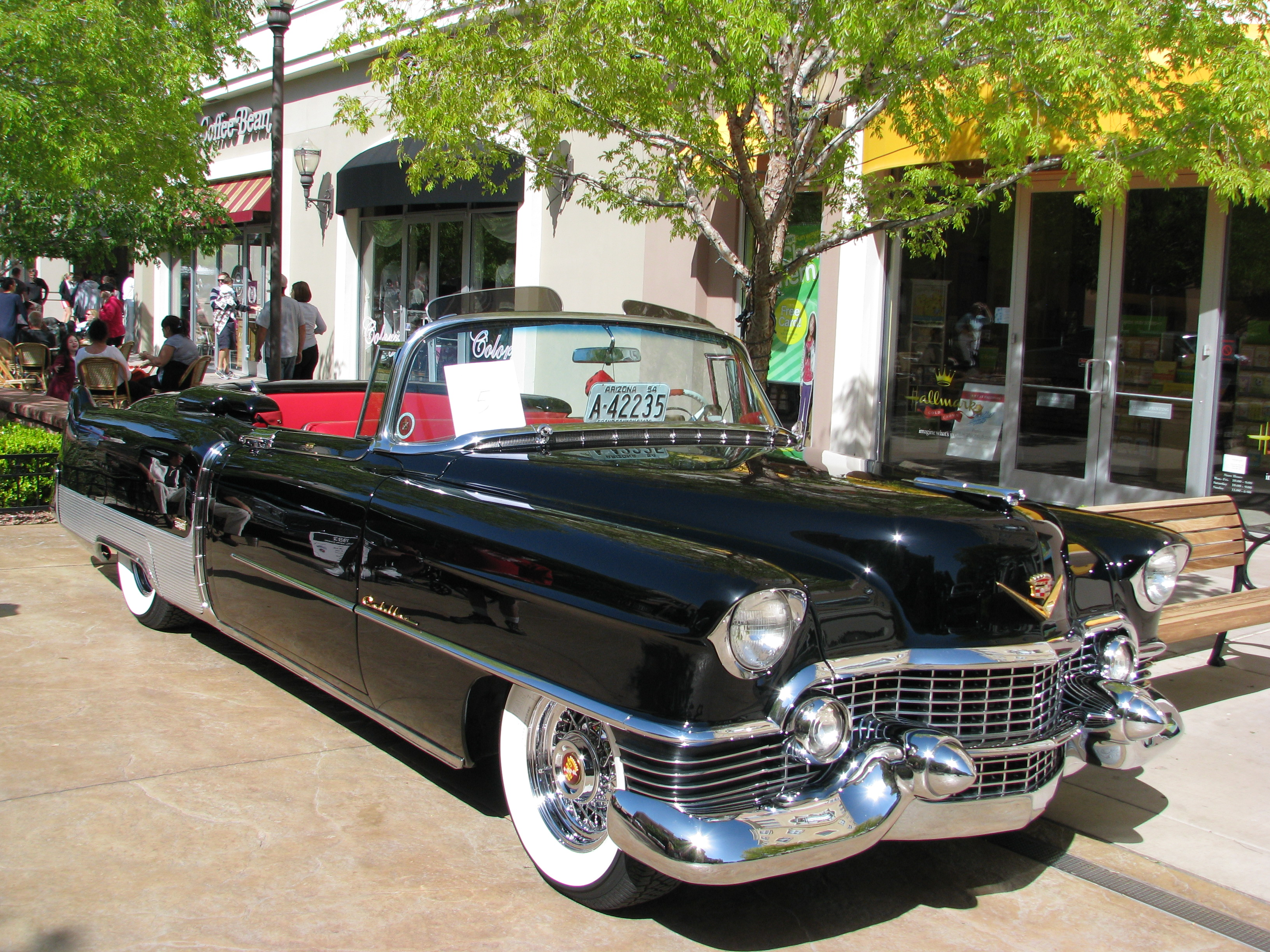 1954 Cadillac Eldorado - Owner: Mike Kosters